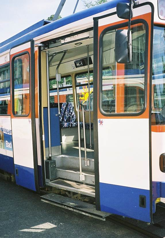 Entrance of a high-floor tram in Darmstadt, germany My own photo from 30-may-2004